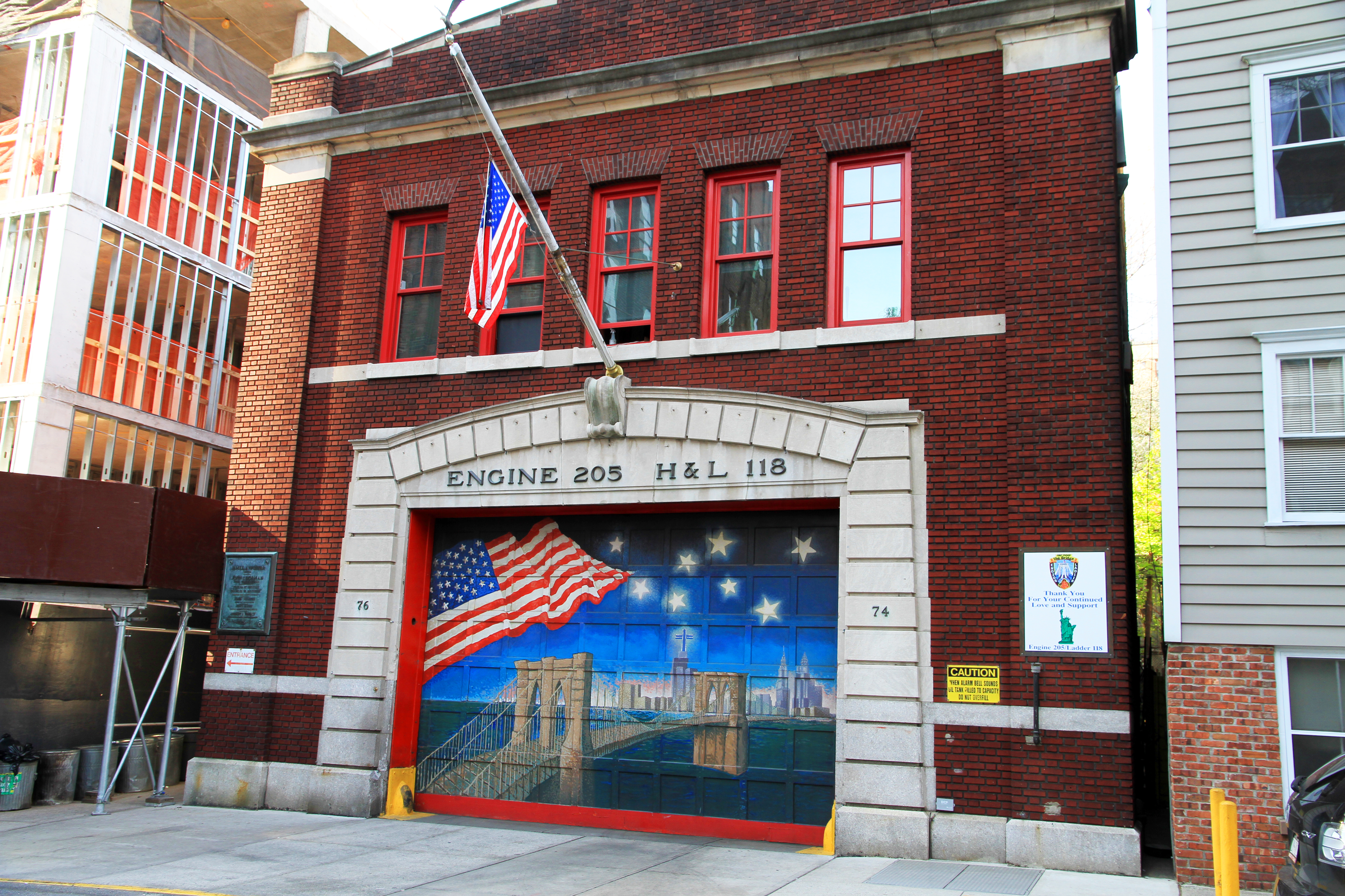 NYFD Engine 205 at 74 Middag Street, Brooklyn Heights